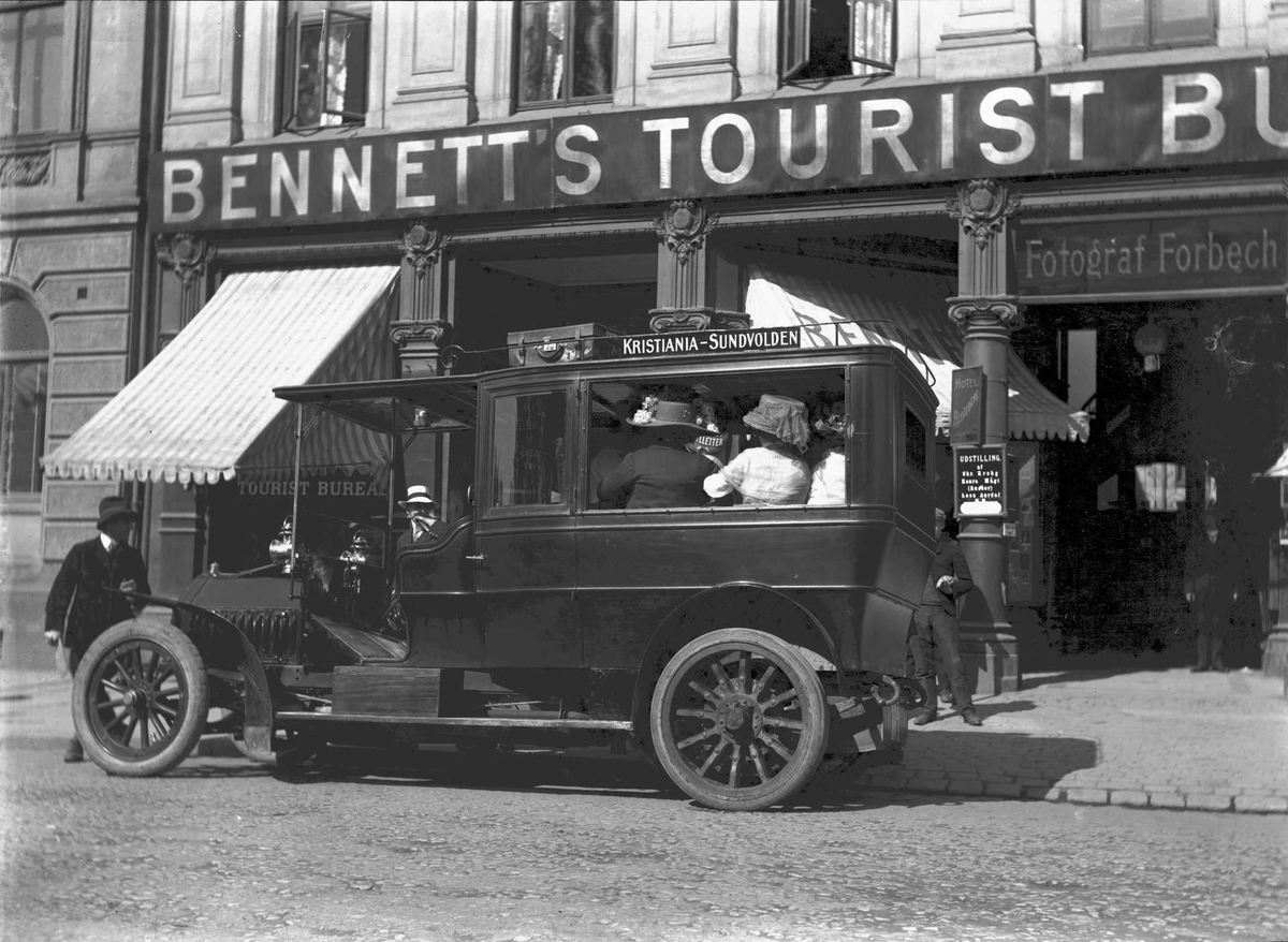 Depicted place: Bennett Reisebureau